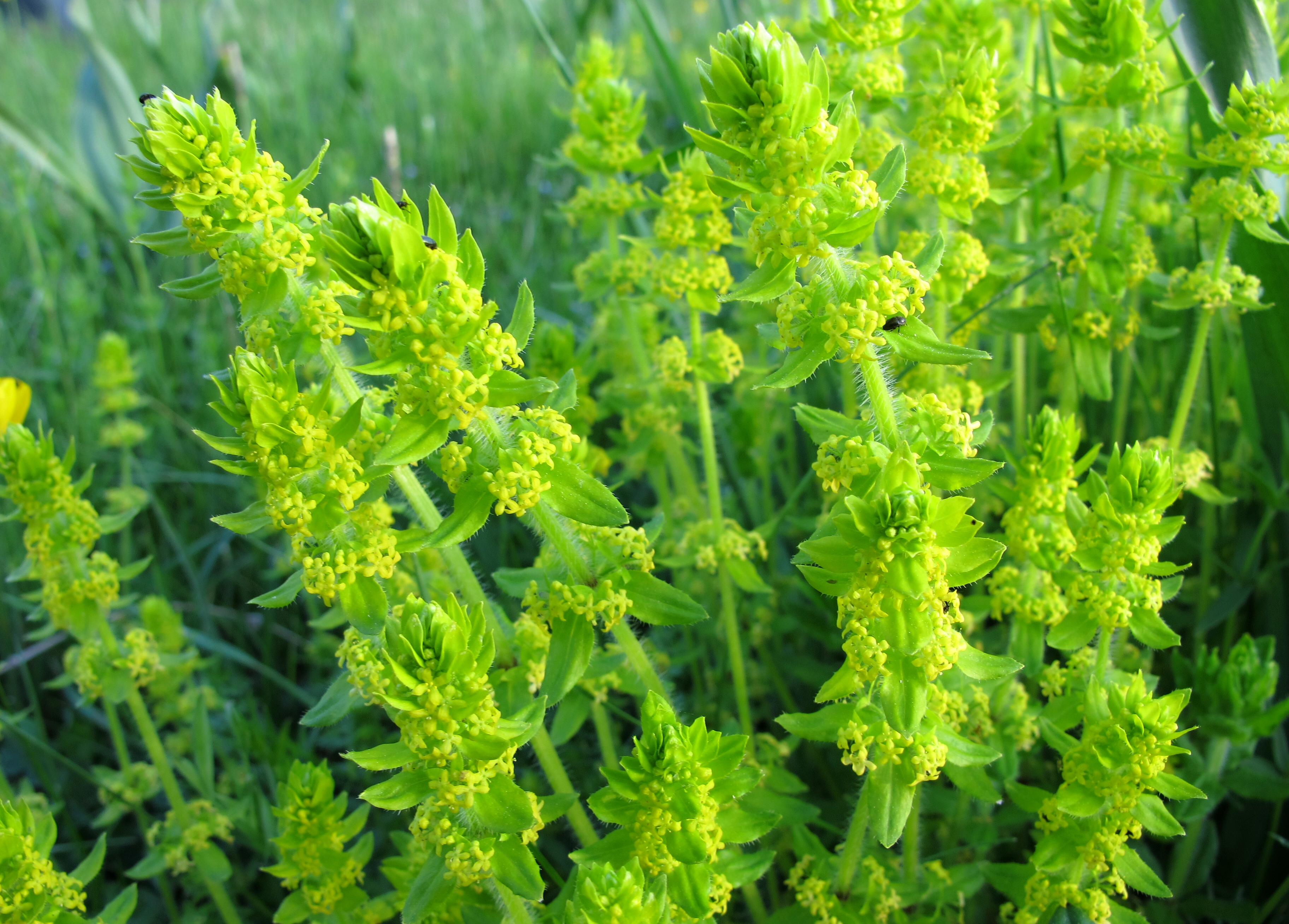 Nature reserve Andělské schody, near Voznice in Příbram District